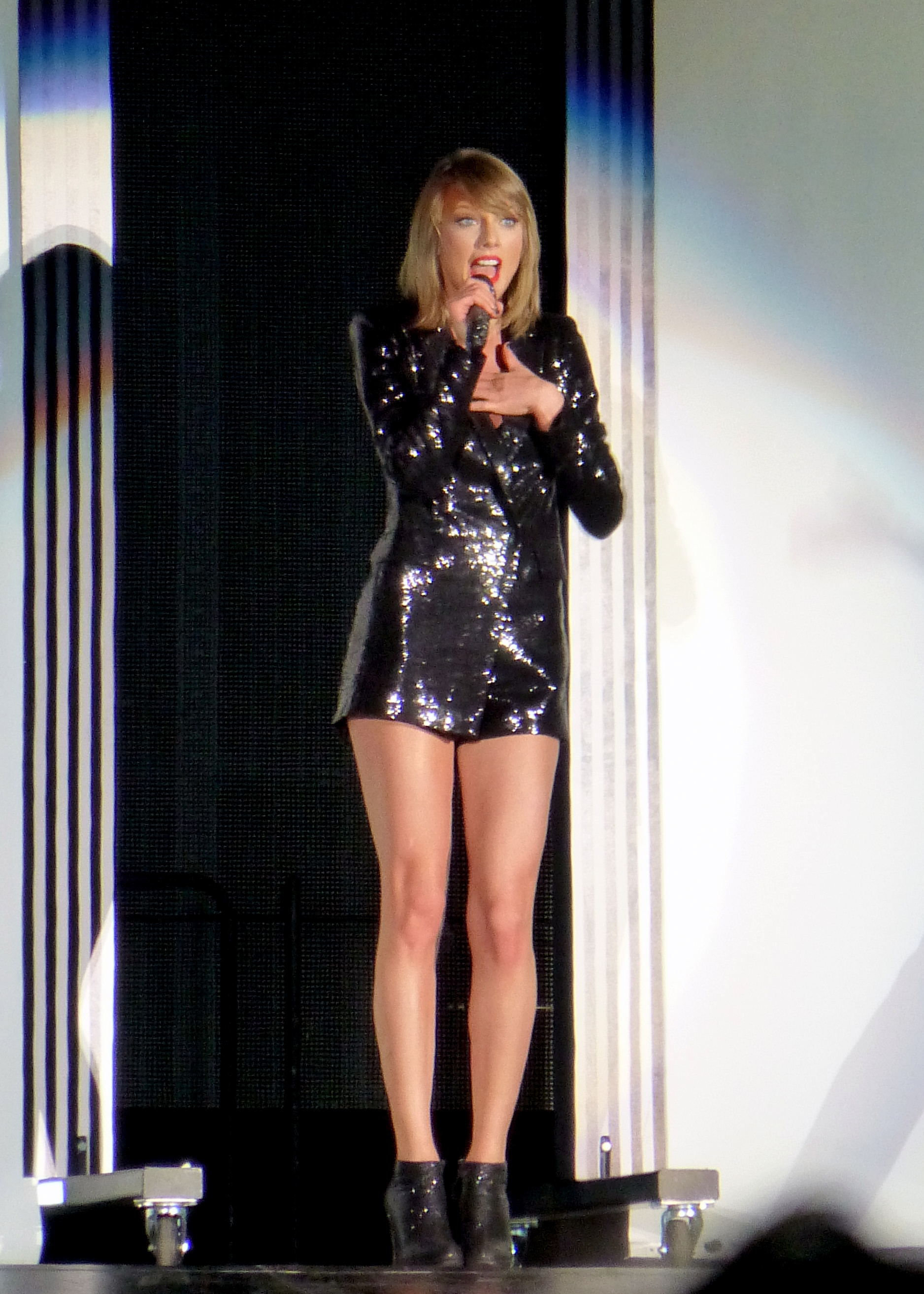 Taylor Swift 1989 Tour at Ford Field in Detroit, 5/30/15